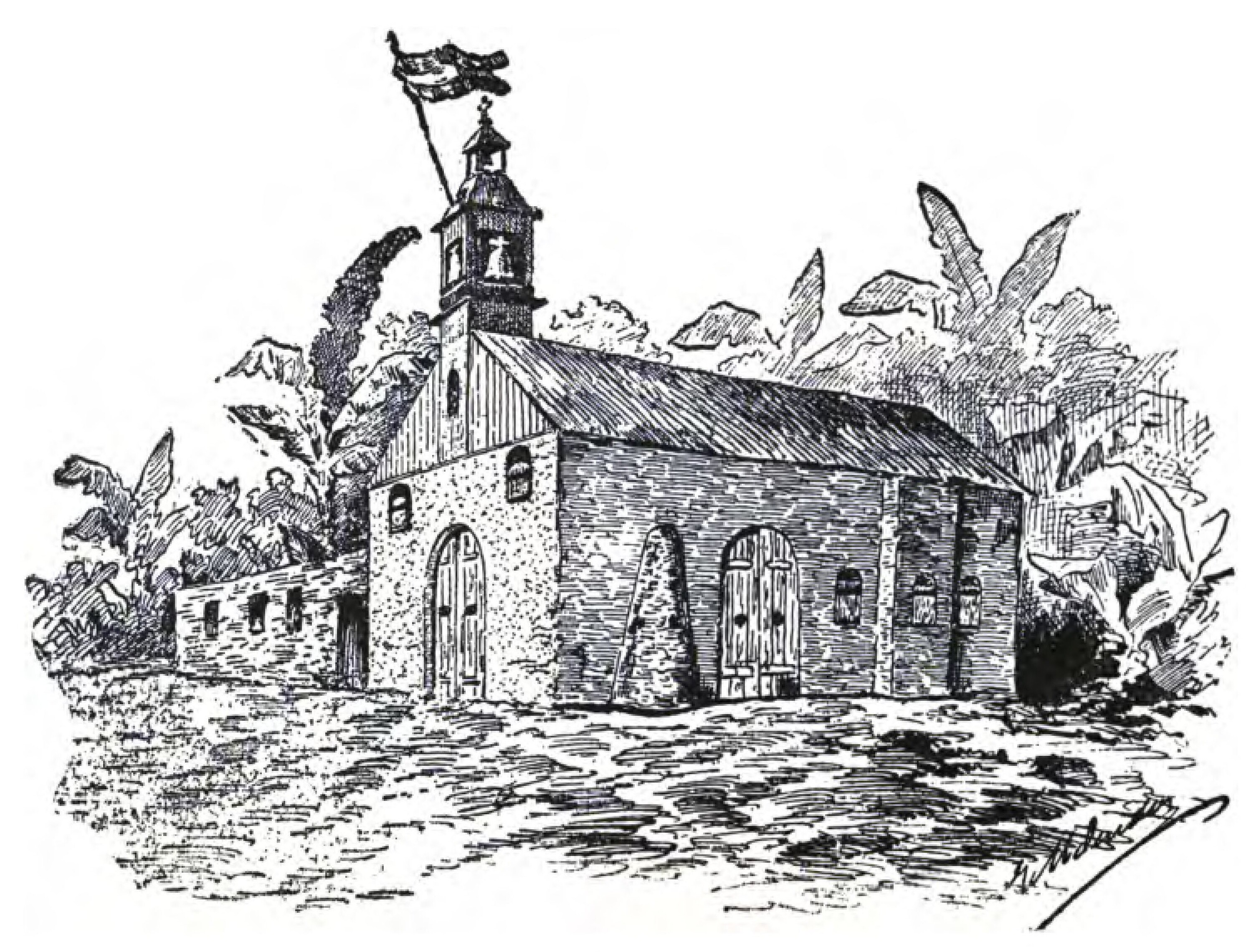 The church of Baler from Under the red and gold: being notes and recollections of the siege of Baler (1909), by Saturnino Martín Cerezo (translation into English by Frank Loring Dodds)